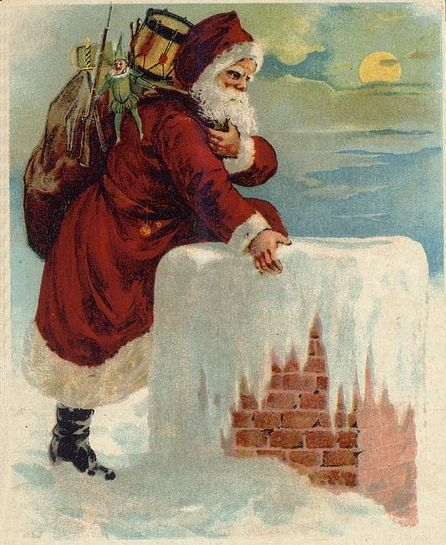 (Removed after reusableart request.)